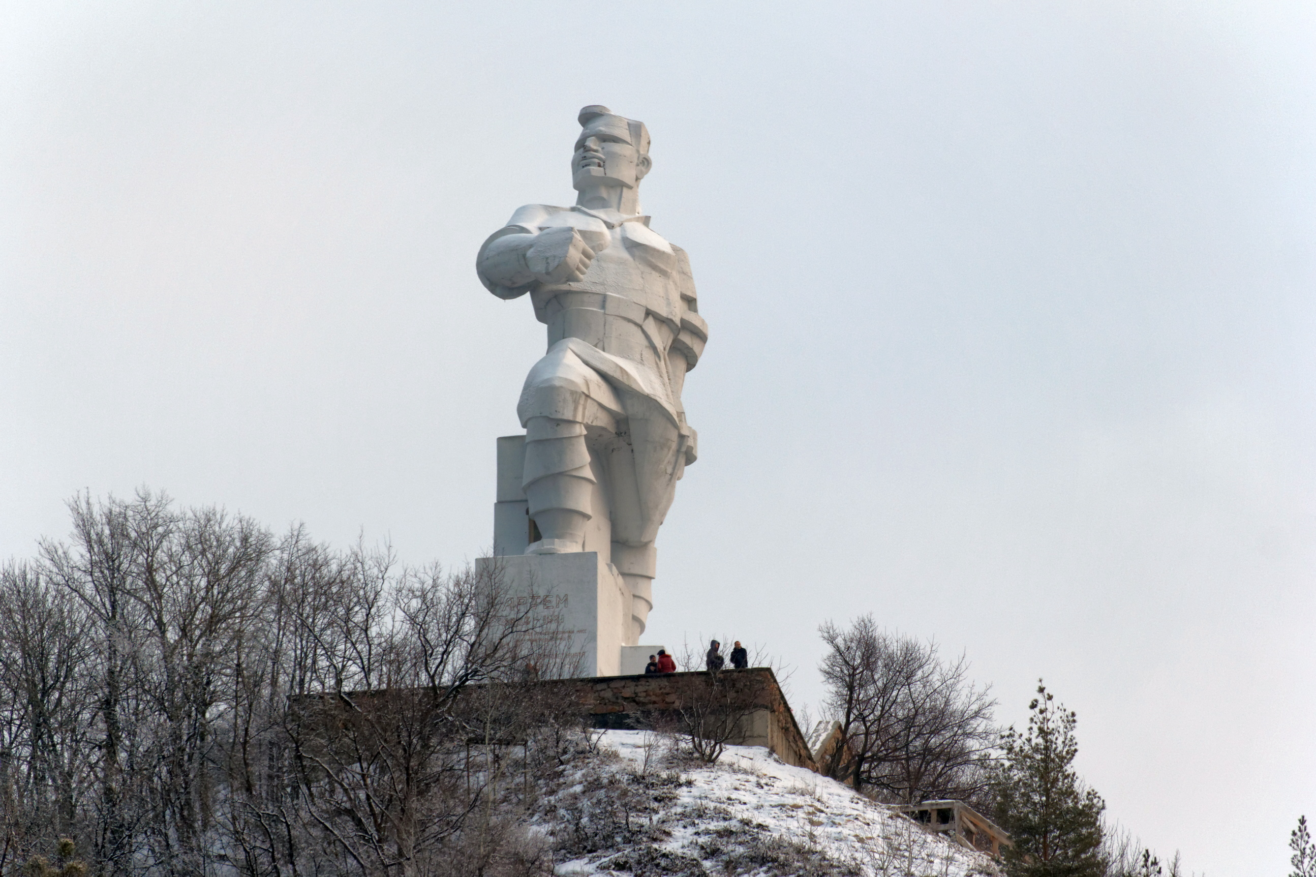 Sviatohirsk. Monument to Artyom